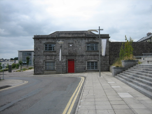 The County Gaol (former), Carrick-on-Shannon. Now used by the County Council, the former Gaol is connected by an underground passage to the Court House, the steps of which may be seen to the right of the picture.